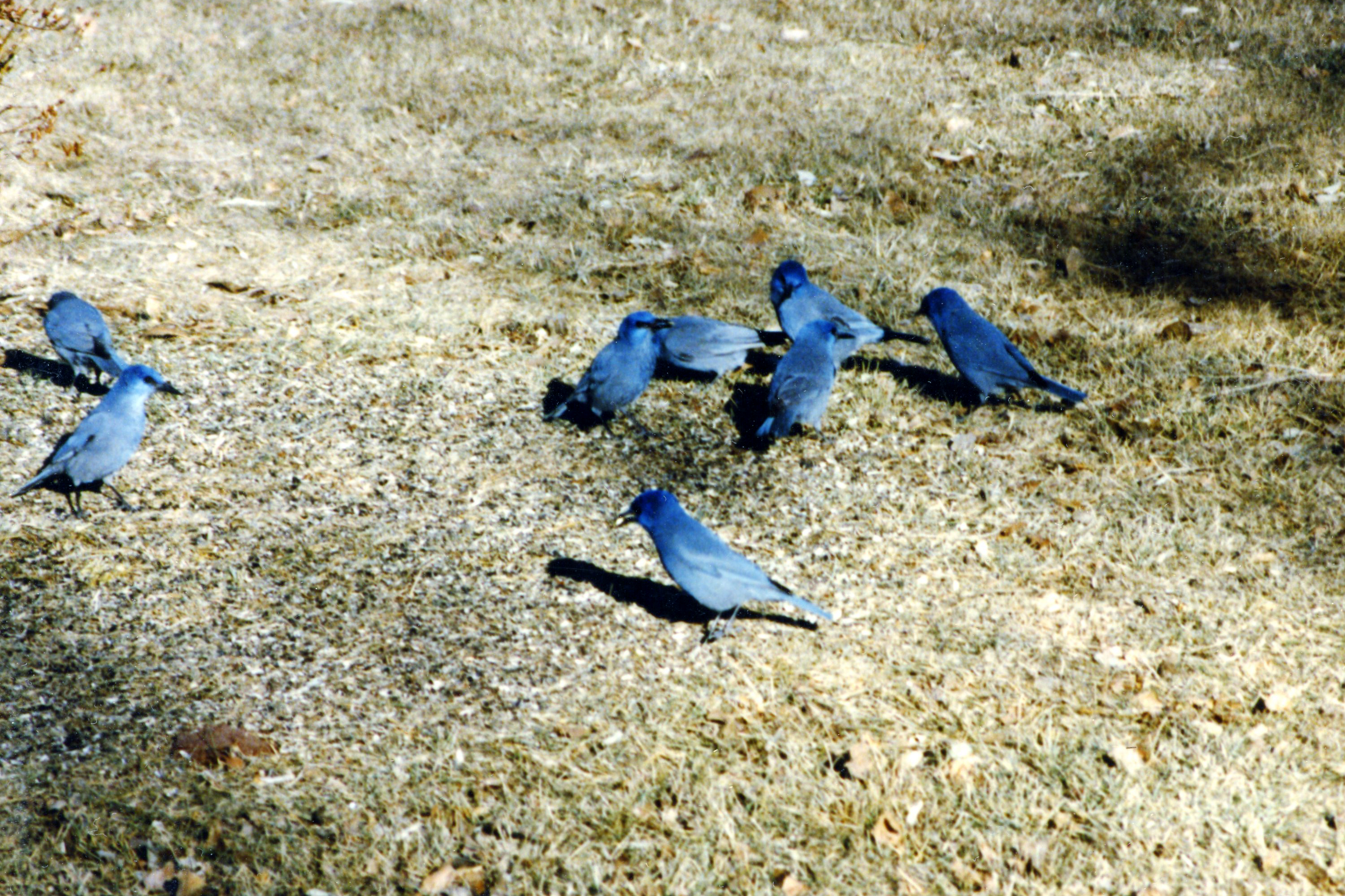 A group of Pinon Jays Gymnorhinus cyanocephalus, Yellowstone National Park